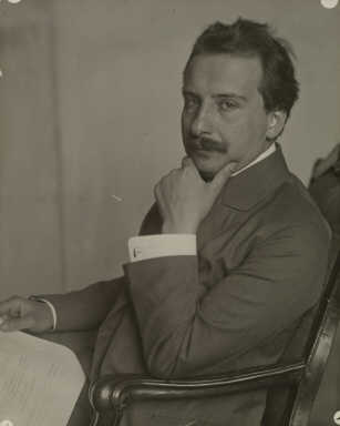 Ernst Benedikt (1882–1973), publisher and editor-in-chief of the Austrian newspaper Neue Freie Presse